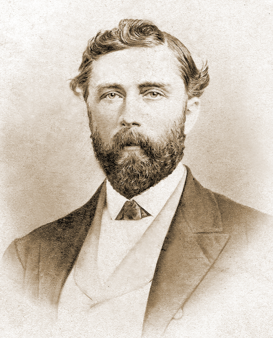 Theodore D. Judah (1826-1863), Chief Engineer, Central Pacific Railroad Company of California. (Portrait photograph by Carleton E. Watkins, 429 Montgomery St., San Francisco, California. 1863) Source: The Cooper Collection of North American Railroadiana (uploader's private collection) Albumen print originally owned by Lewis M. Clement (1837-1914), Chief Assistant Engineer, CPRR (1862-1881)